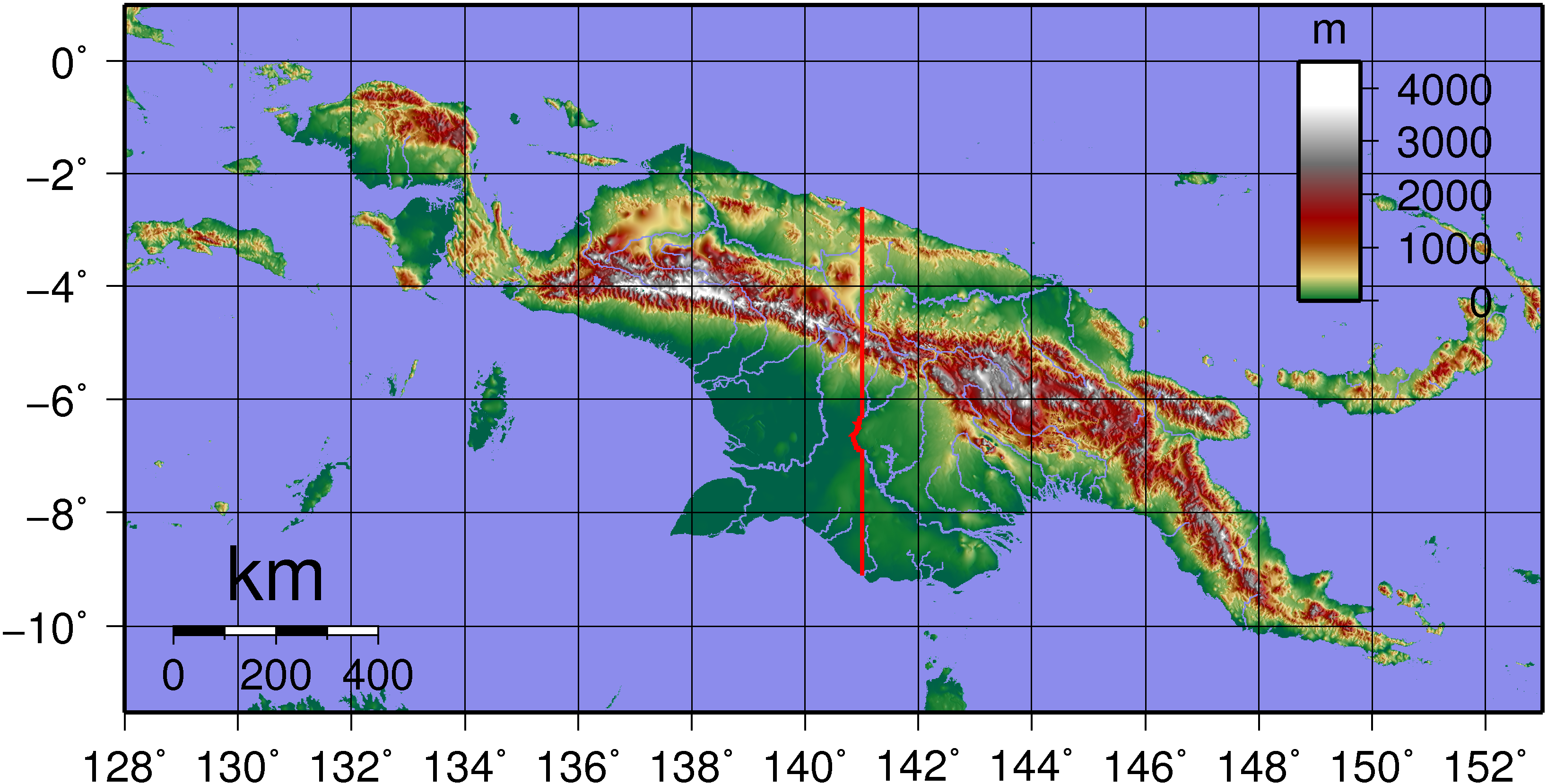 Topographic map of New Guinea. Created with GMT from publicly released GLOBE data[1].